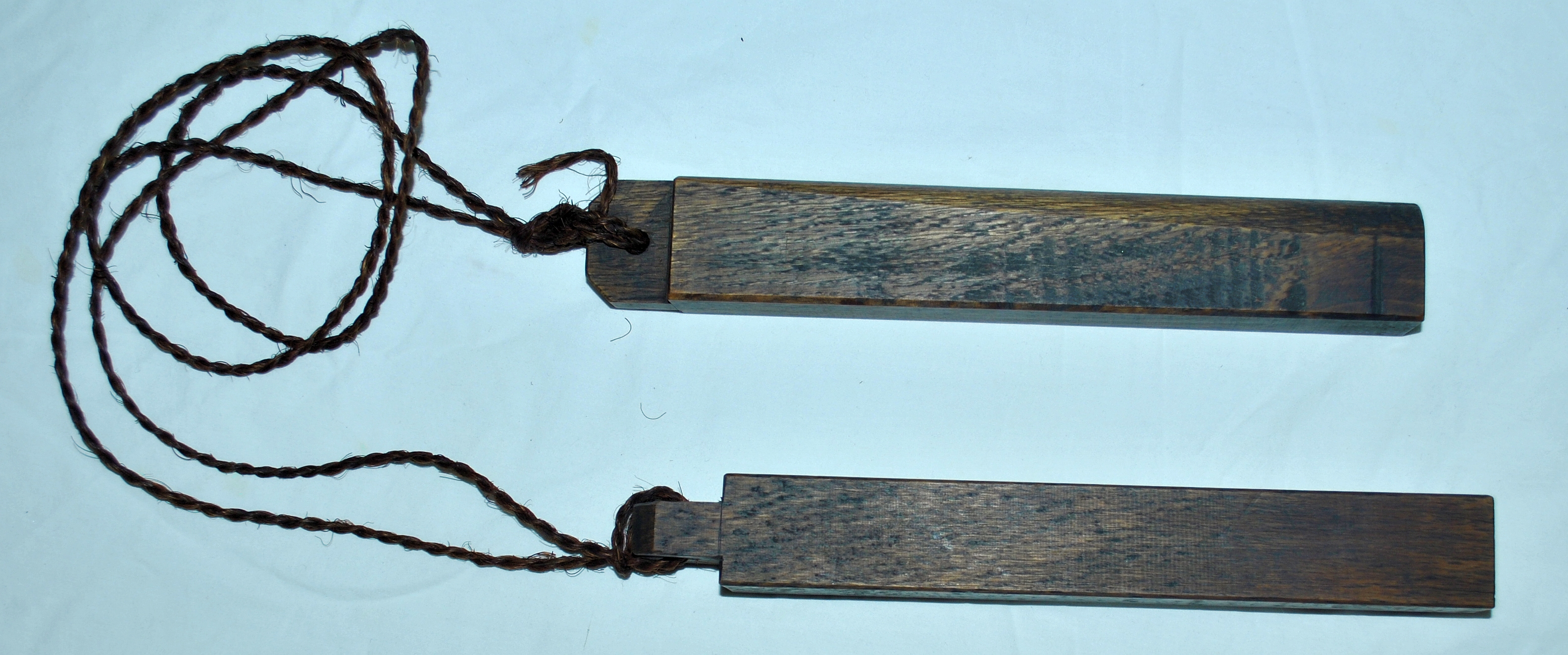 Japanese hyoshiki, wooden clappers used by night watchmen to alert villagers of fires and other dangers.